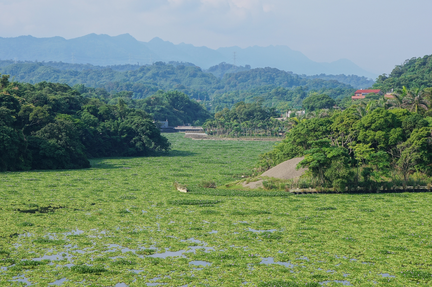 The water of Tai-Po reservoir